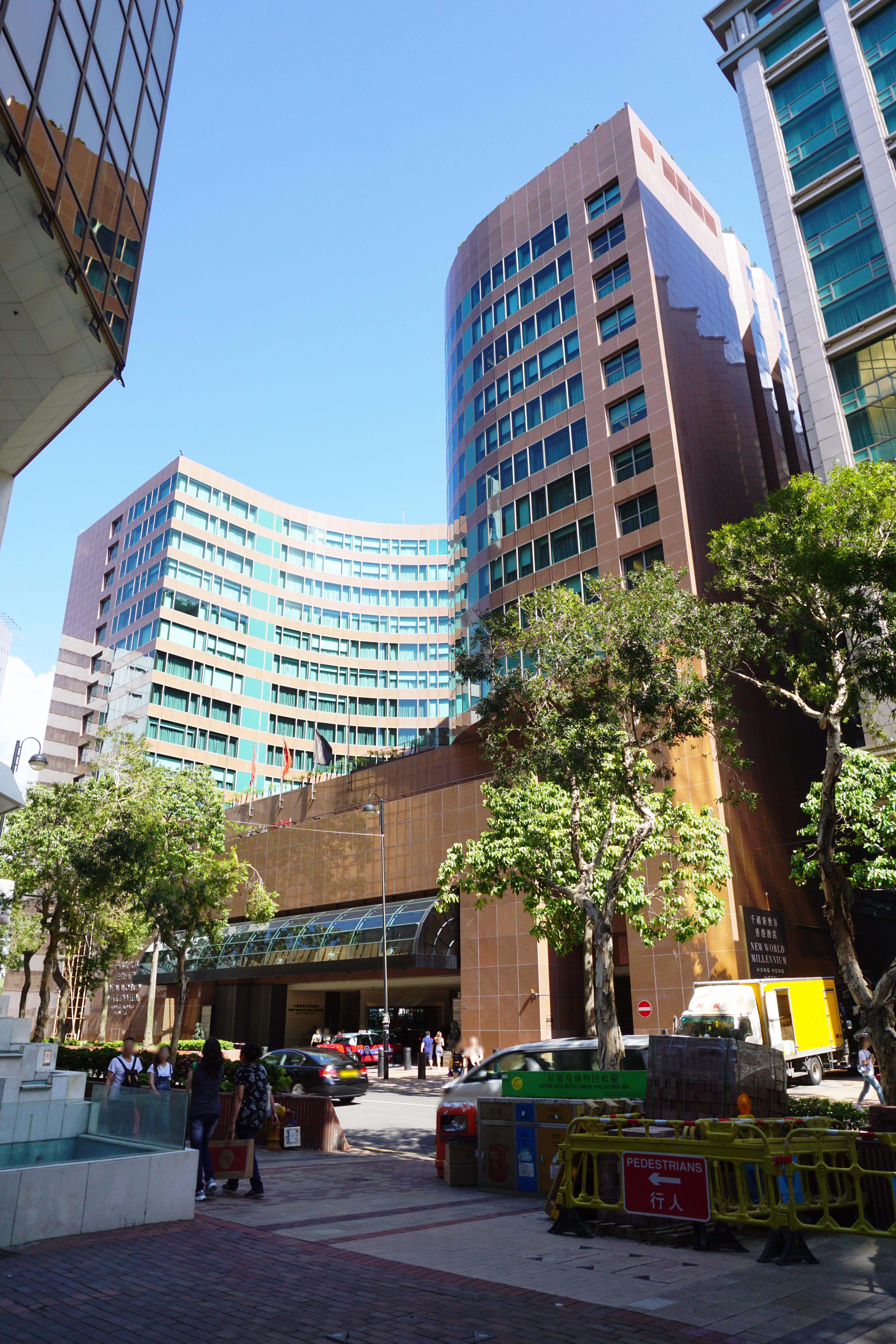 New World Millennium Hong Kong Hotel in East Tsim Sha Tsui, Hong Kong.